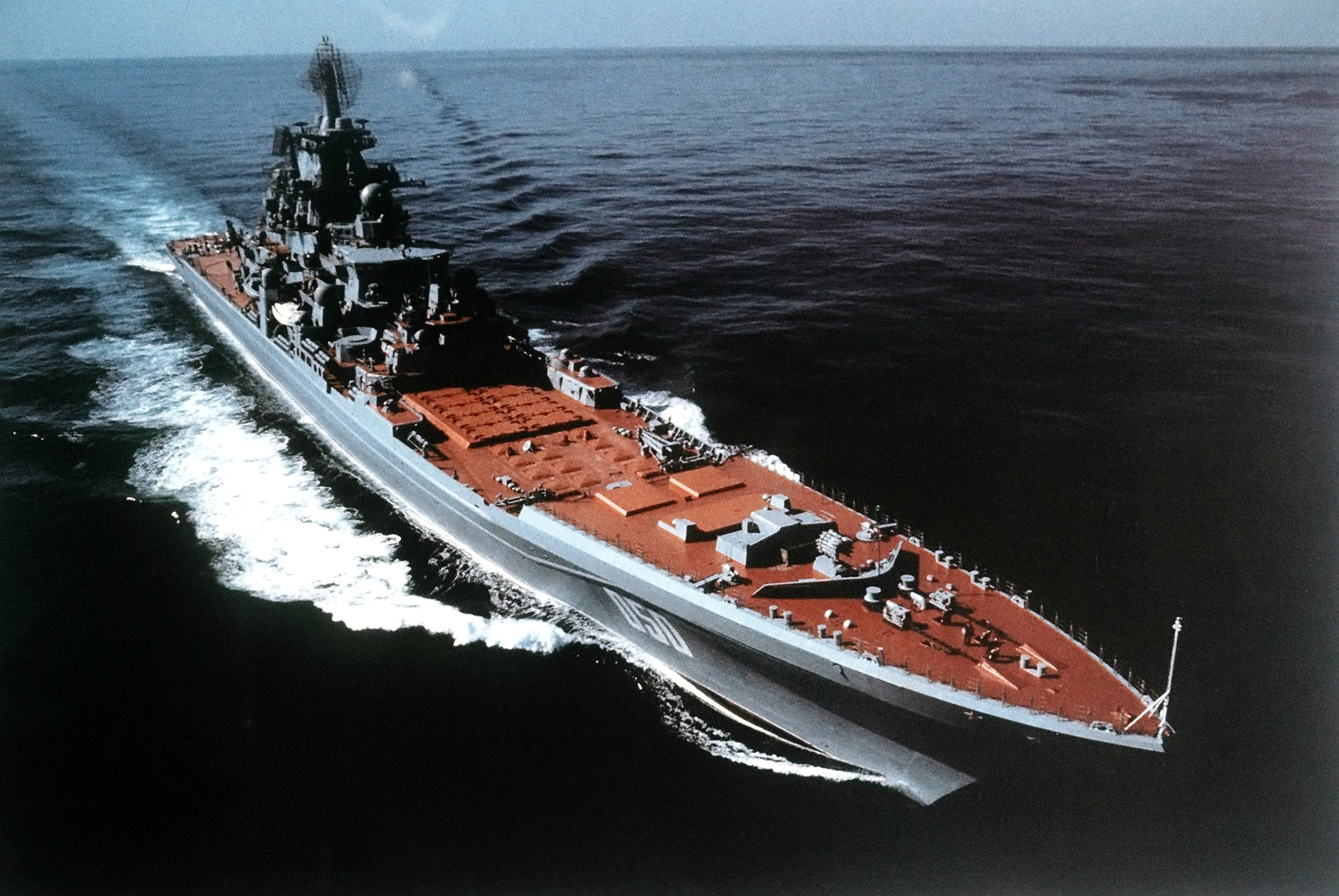 A starboard bow view of the Soviet Kirov Class nuclear-powered guided missile cruiser FRUNZE underway. (Soviet Military Power, 1986. published by Defense Intelligence Agency.)